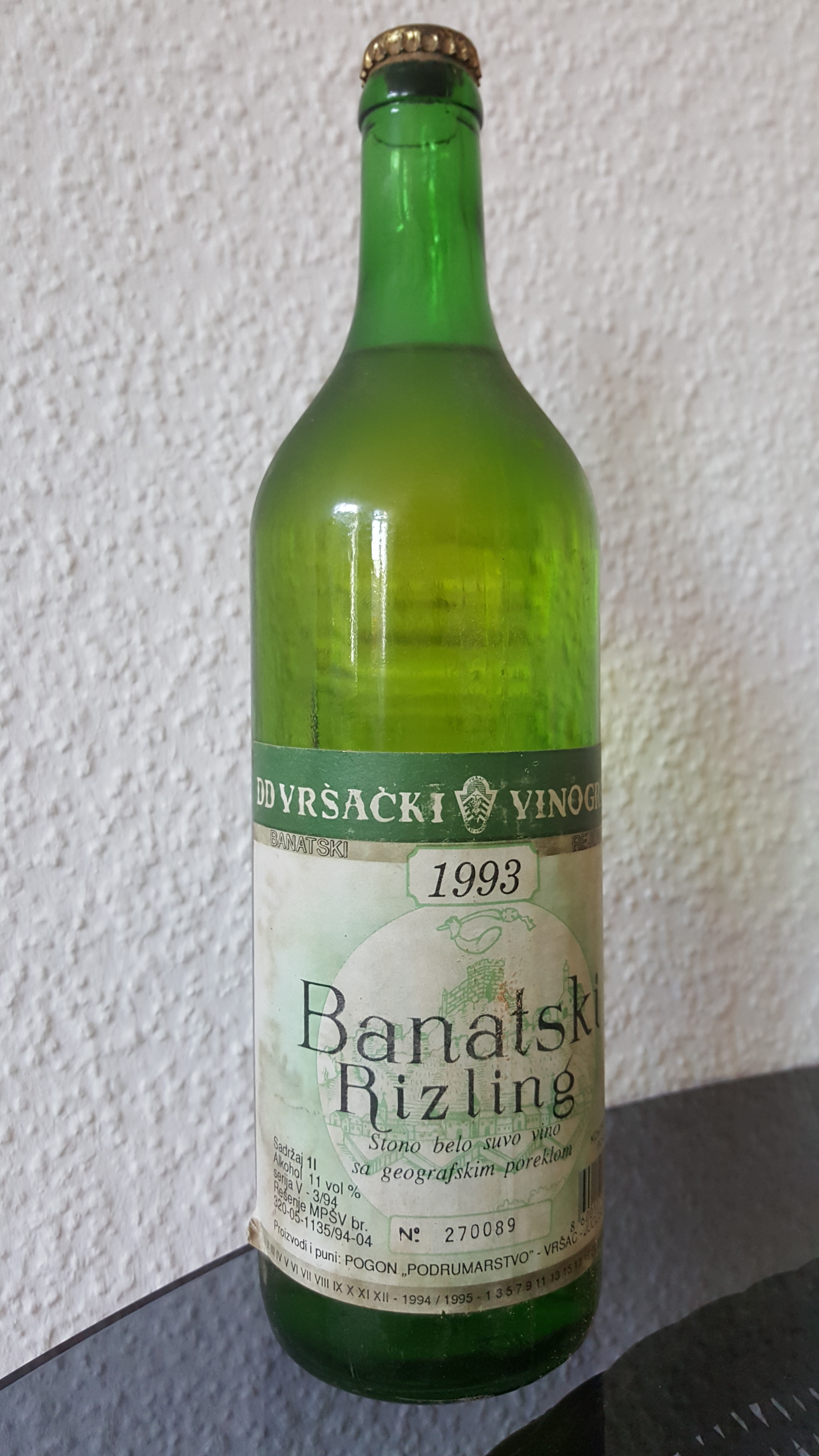 A bottle of white wine, Banatski Rizling, harvest 1993, from Vršac/Вршац, then Yugoslavia, now Serbia